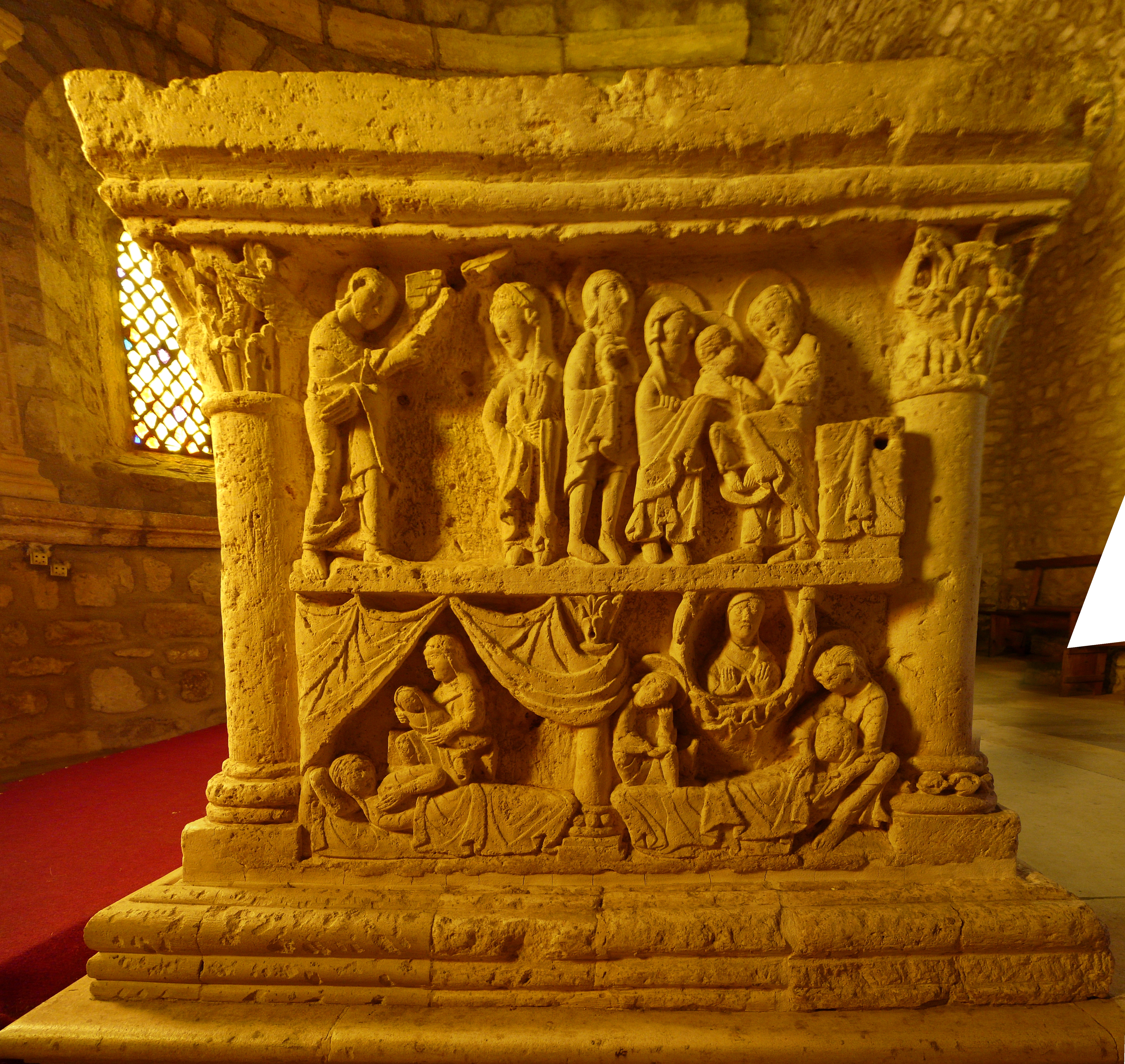 North side of the altar of the church of Avenas.